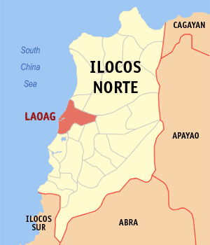 Map of Ilocos Norte showing the location of Laoag